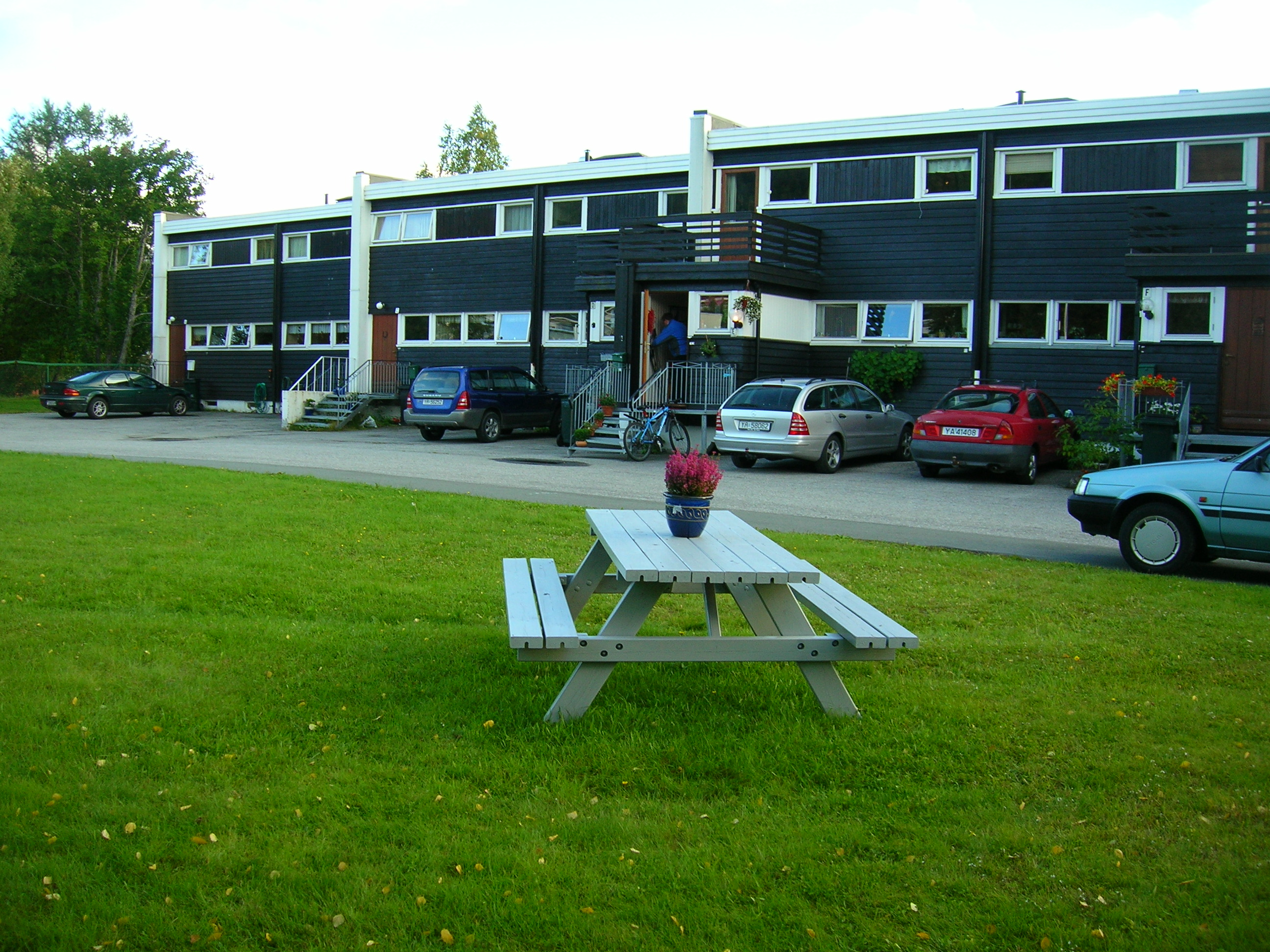 Elgveien housing cooperative on Selfors, north of Mo i Rana, Rana municipality, county of Nordland, Norway, Photo 4 September, 2007 with a Nikon Coolpix 5600 5,1 Megapixel camera.